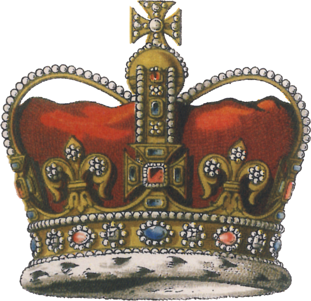 St Edward's Crown used in English coronations